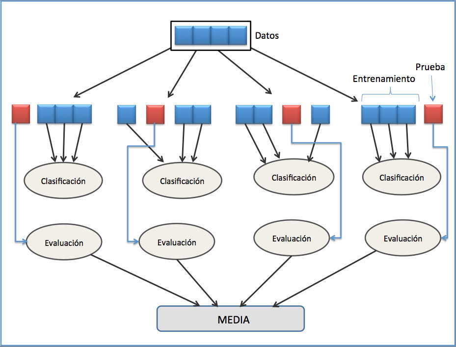 K-fold scheme